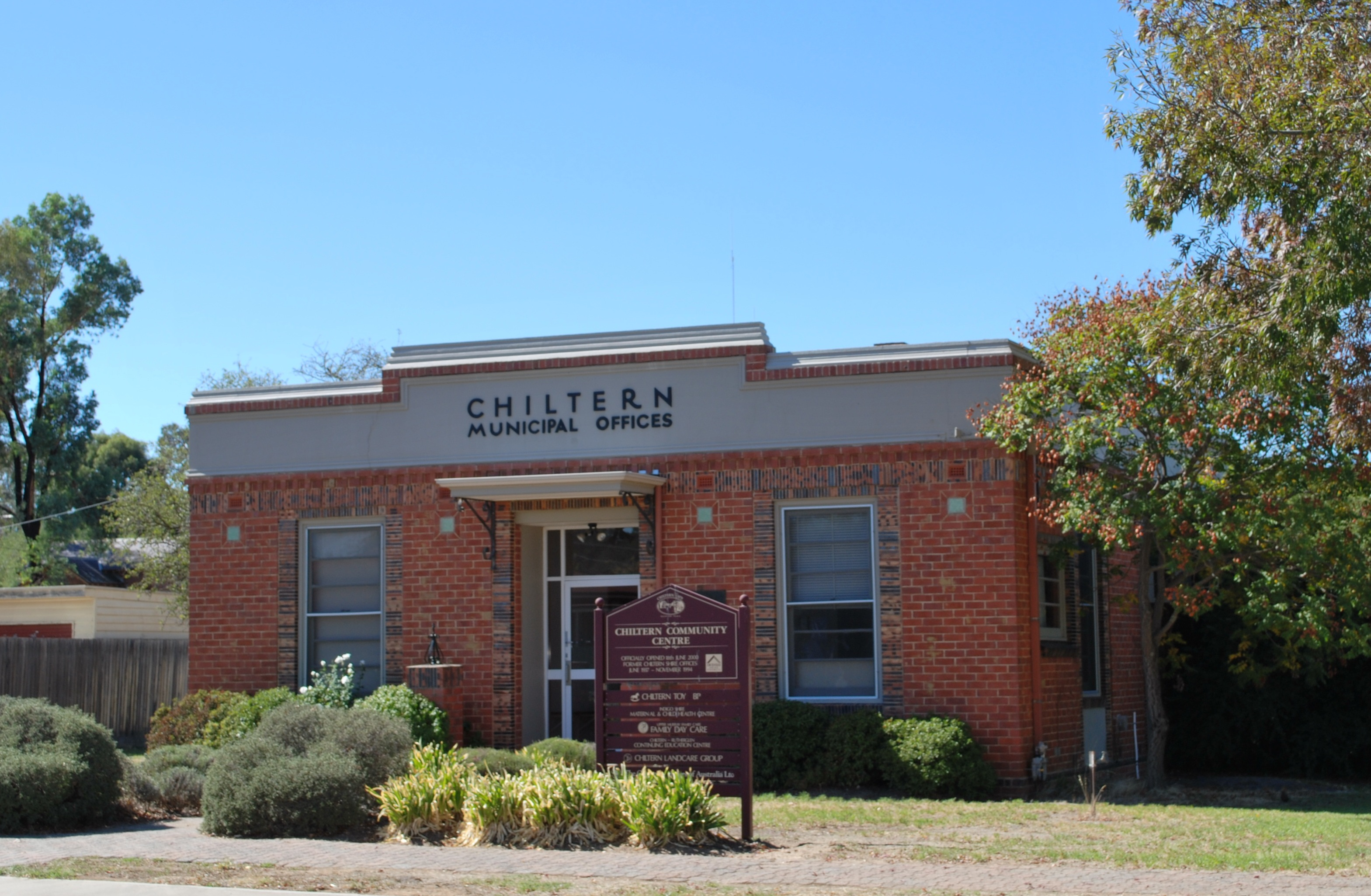 The Chiltern Community Centre, formerly the municipal offices, at Chiltern, Victoria